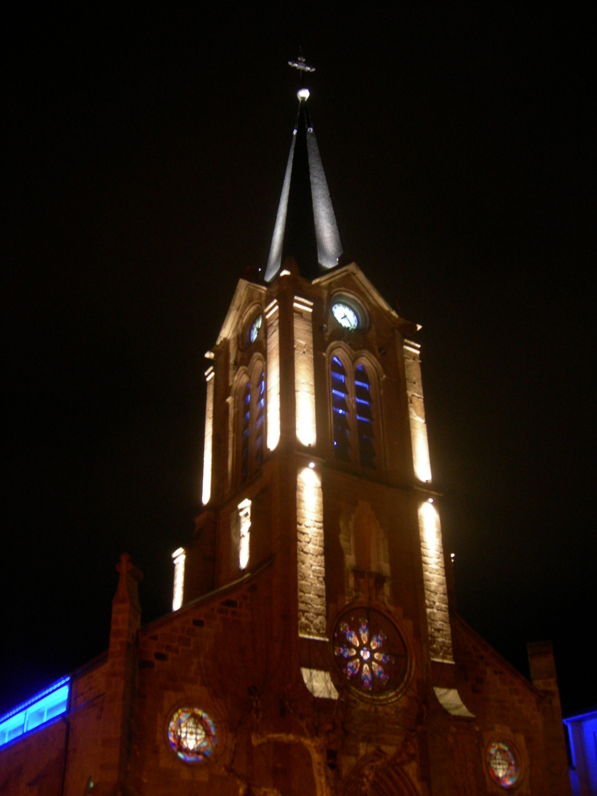 church by night